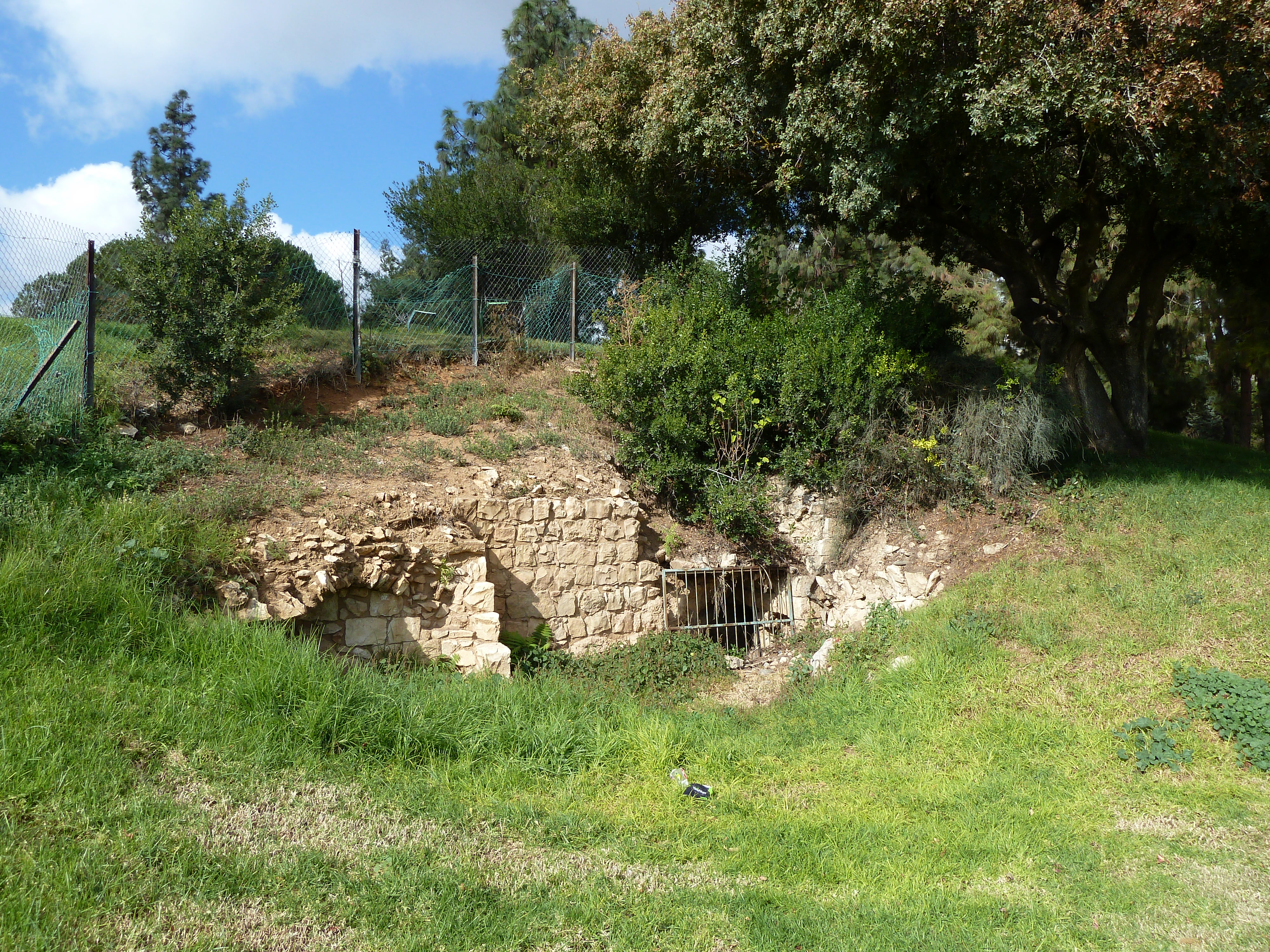 West Jerusalem Independence Park Lion's cave